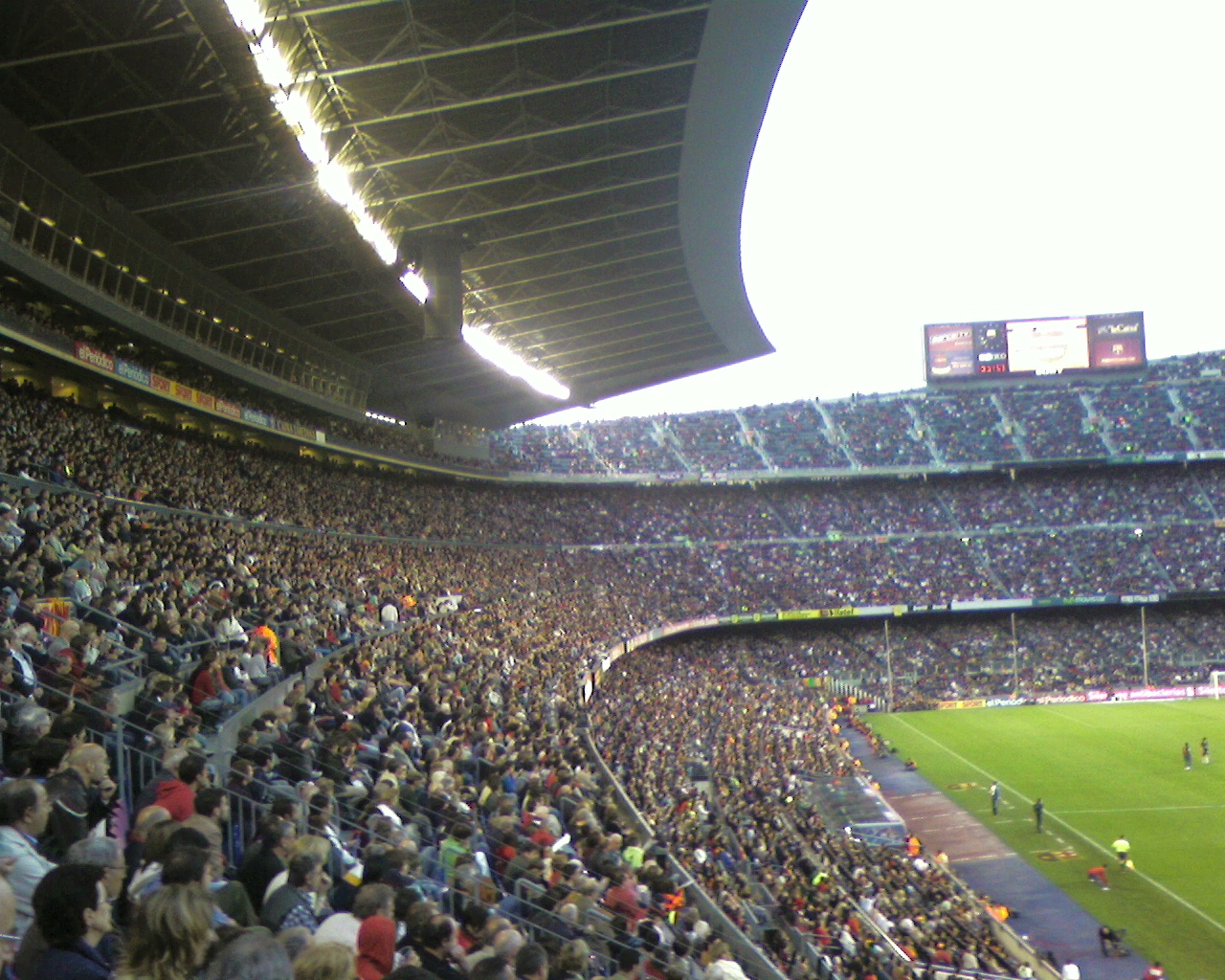 The stadium Camp Nou